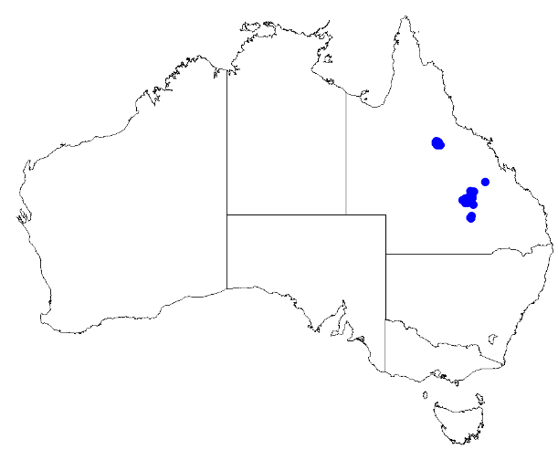 Boronia eriantha occurrence data downloaded from Australasian Virtual Herbarium 10 April 2019 using This download included all the environmental overlay fields and ALA's data checking fields including "cultivated / escapee", "outside expert range for species", "latitude is negated", "coordinates are transposed", "taxon misidentified", "habitat incorrect for species", and "suspected outlier" (over 600 fields). Deleting occurrences for which any of the above were true, 46 specimens with coordinates were deleted. However this did not remove all obvious spatial outliers some of which were later removed by hand..